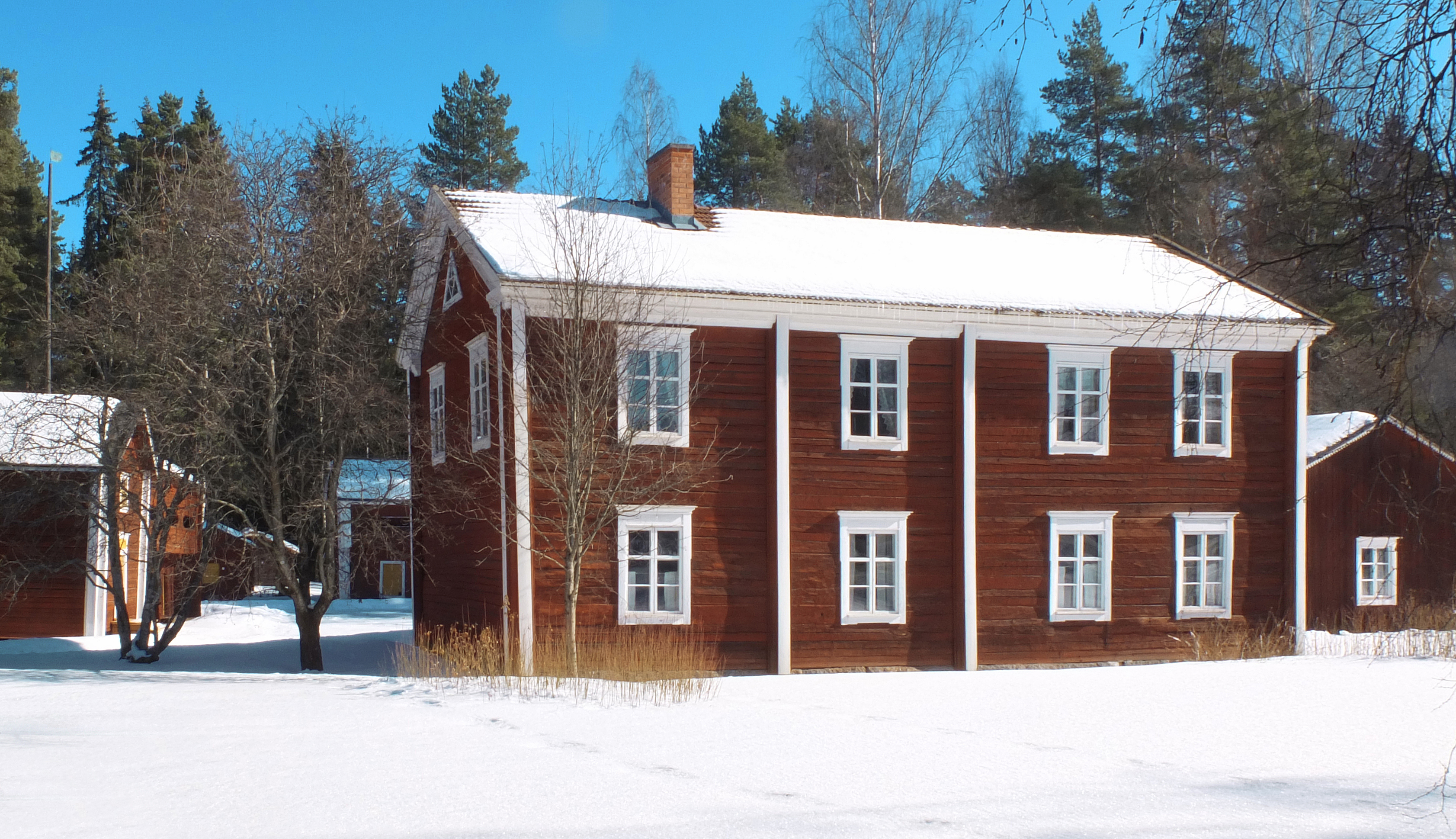 Liinamaa farmhouse at the Törnävä outdoor museum, Seinäjoki, Finland, March 2013.